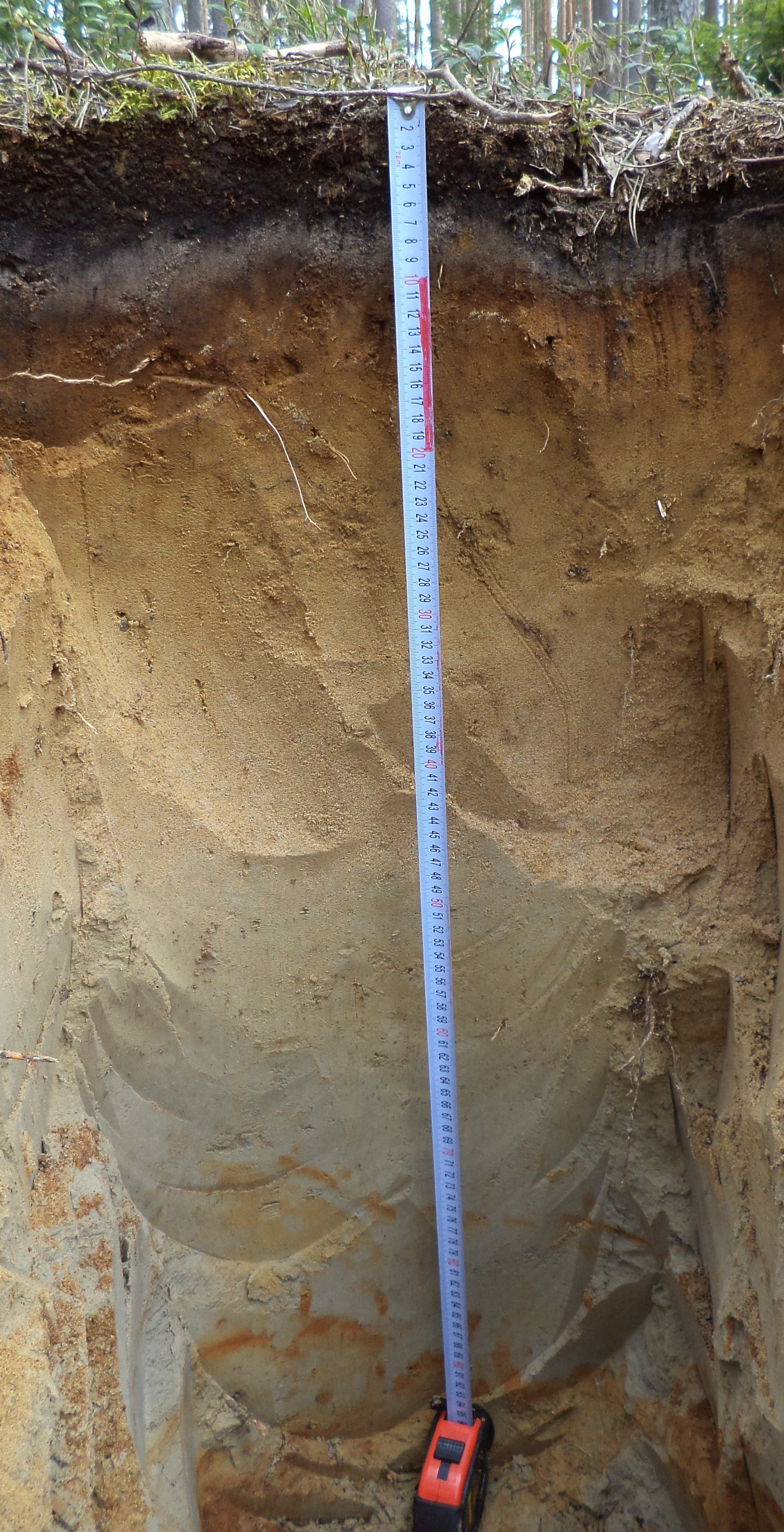 Podzols Rustic (WRB code: PZrs). Surface-podzolic sandy soil at the contact middle and southern taiga (Karelian Isthmus) under lighted pine forest